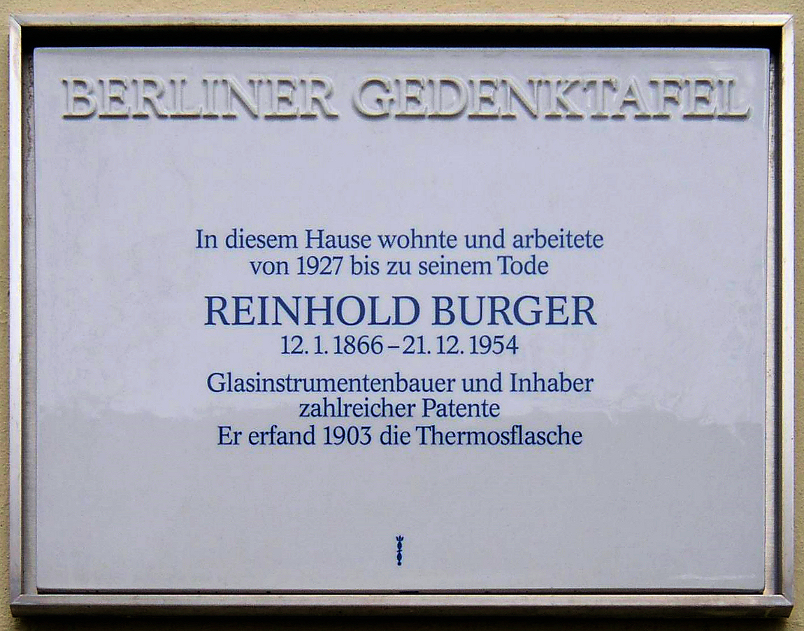 Berlin memorial plaque, Reinhold Burger, Wilhelm-Kuhr-Straße 3, Berlin-Pankow, Germany Koordinate:52°34′10″N 13°23′59″E / 52.56944°N 13.39972°E